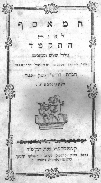 Title page to the first edition of ha-Meassef, the periodical of the Prussian Haskalah. Printed in Königsberg.